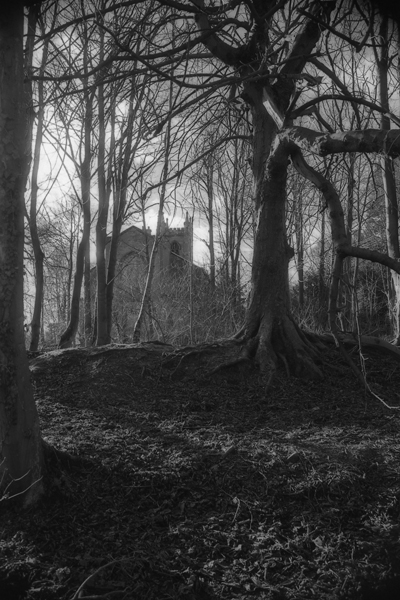 Cadder Kirk from the Forth and Clyde Canal. Cadder Kirk is situated close to the Forth and Clyde Canal and remains of the Roman Antonine Wall.